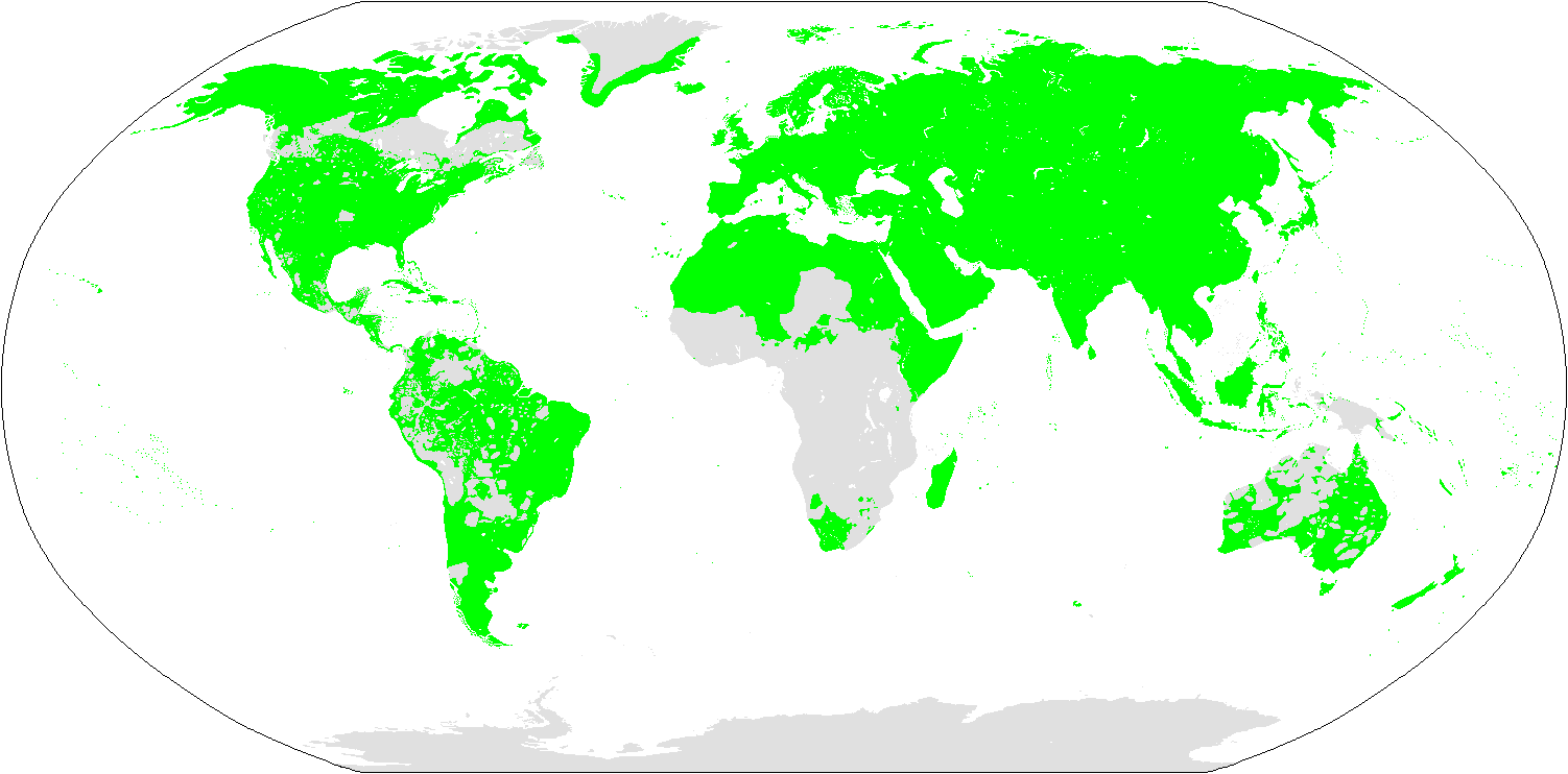 Map of the hypothetical Borean languages macro-family according to Sergei Starostin, map source File:Human Language Families Map.PNG